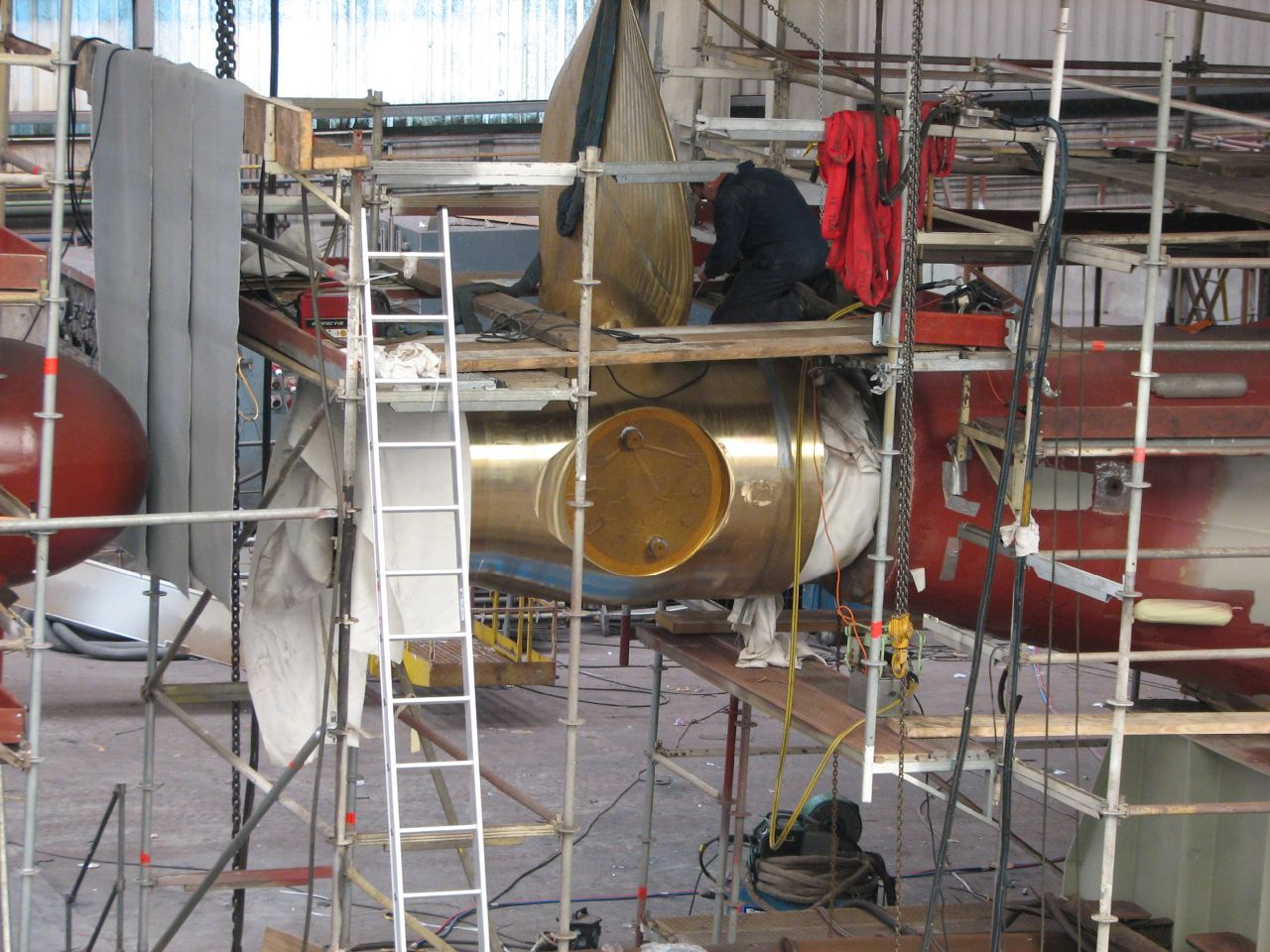 Mounting of blades at Flensburger Schiffbau Gesellschaft, Germany